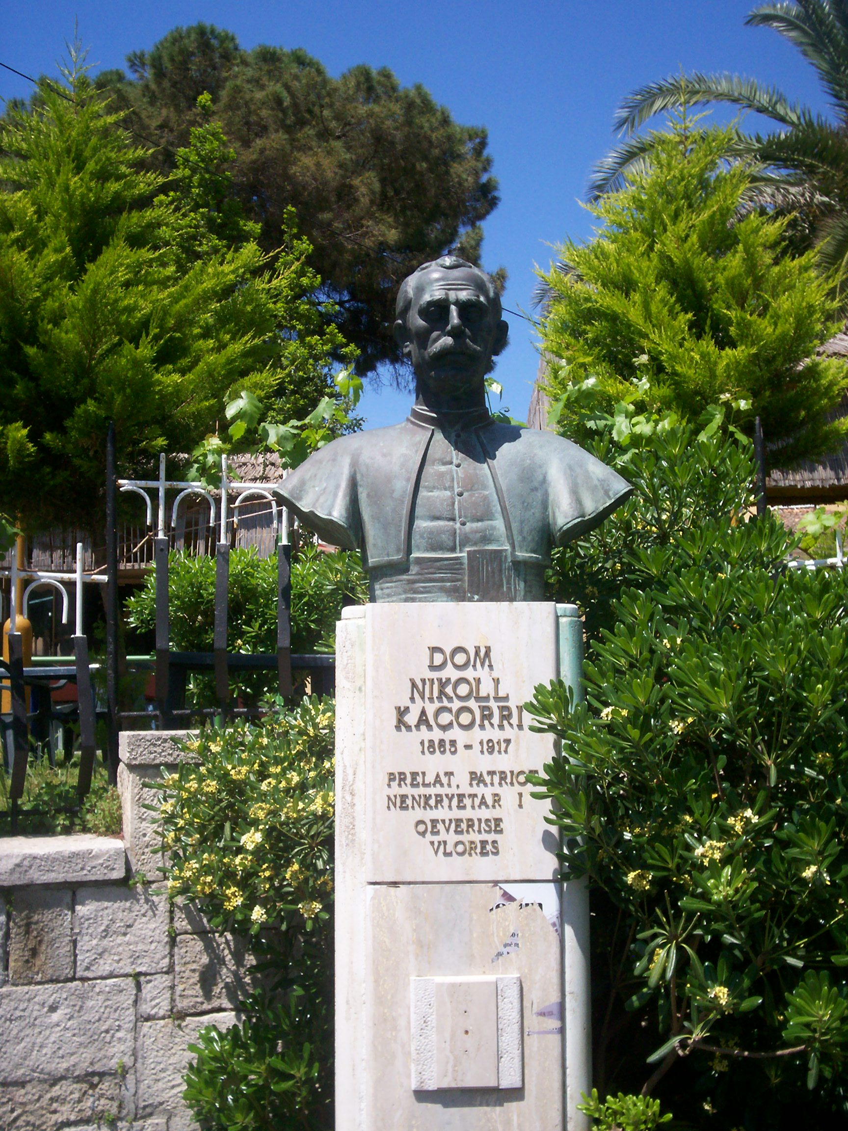 Bust of Dom Nikollë Kaçorri, the Vice Prime minister of the Provisional Government of Albania in Durrës.